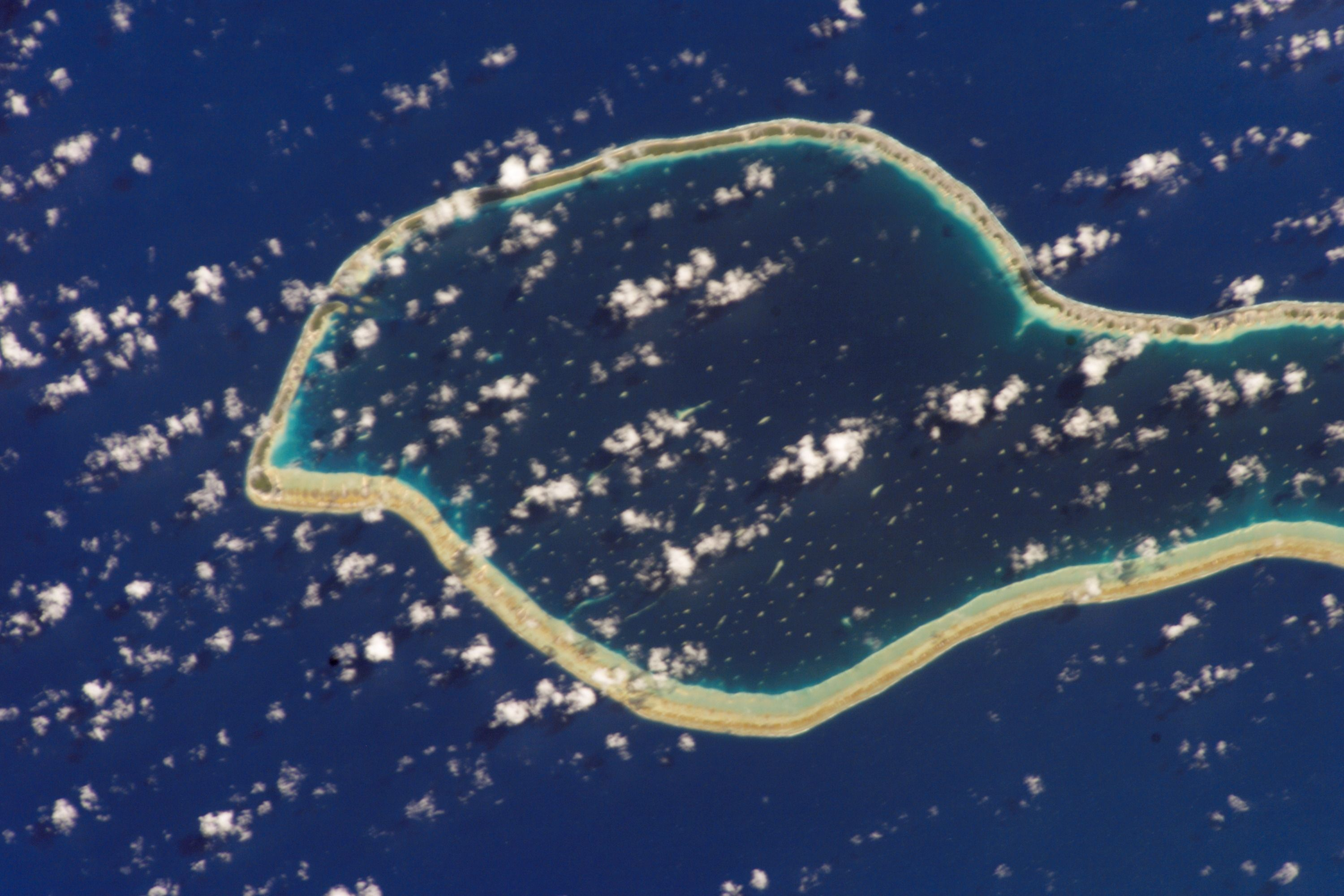 NASA astronaut image of Makemo Atoll (Tuamotu Archipelago, French Polynesia) in the Pacific Ocean